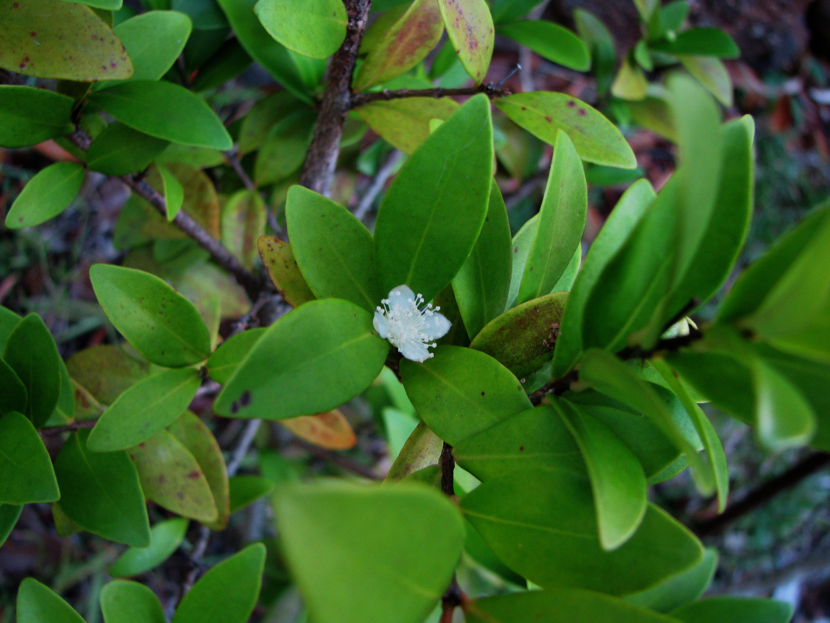 Nīoi, Beach cherry, or A'abang (Chomorro) Myrtaceae Indigenous to the Hawaiian Islands Oʻahu (Cultivated); Guam form, rare. The hard wood was fashioned into kapa (tapa) beaters by early Hawaiians. The fruits are eaten in many parts of the world today and have a somewhat sweet to bland or bitter taste.